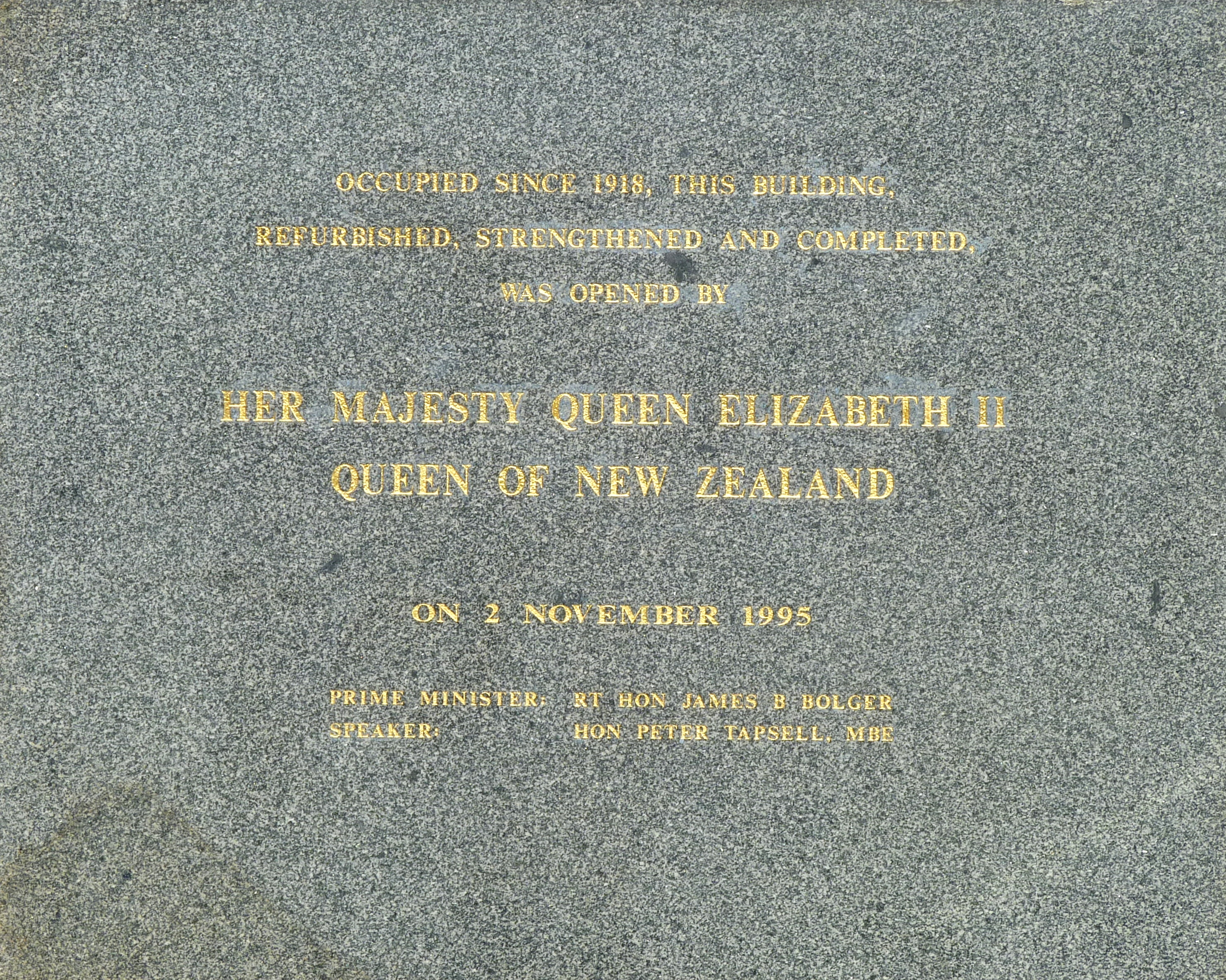 Parliament House. Wellington, New Zealand